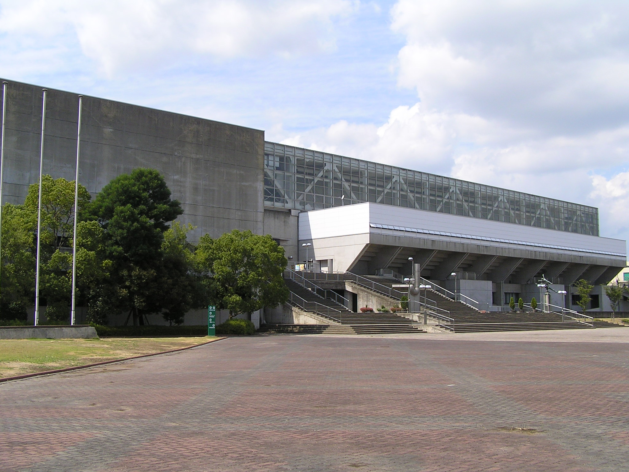 Okayama City Synthesis and Culture Arena